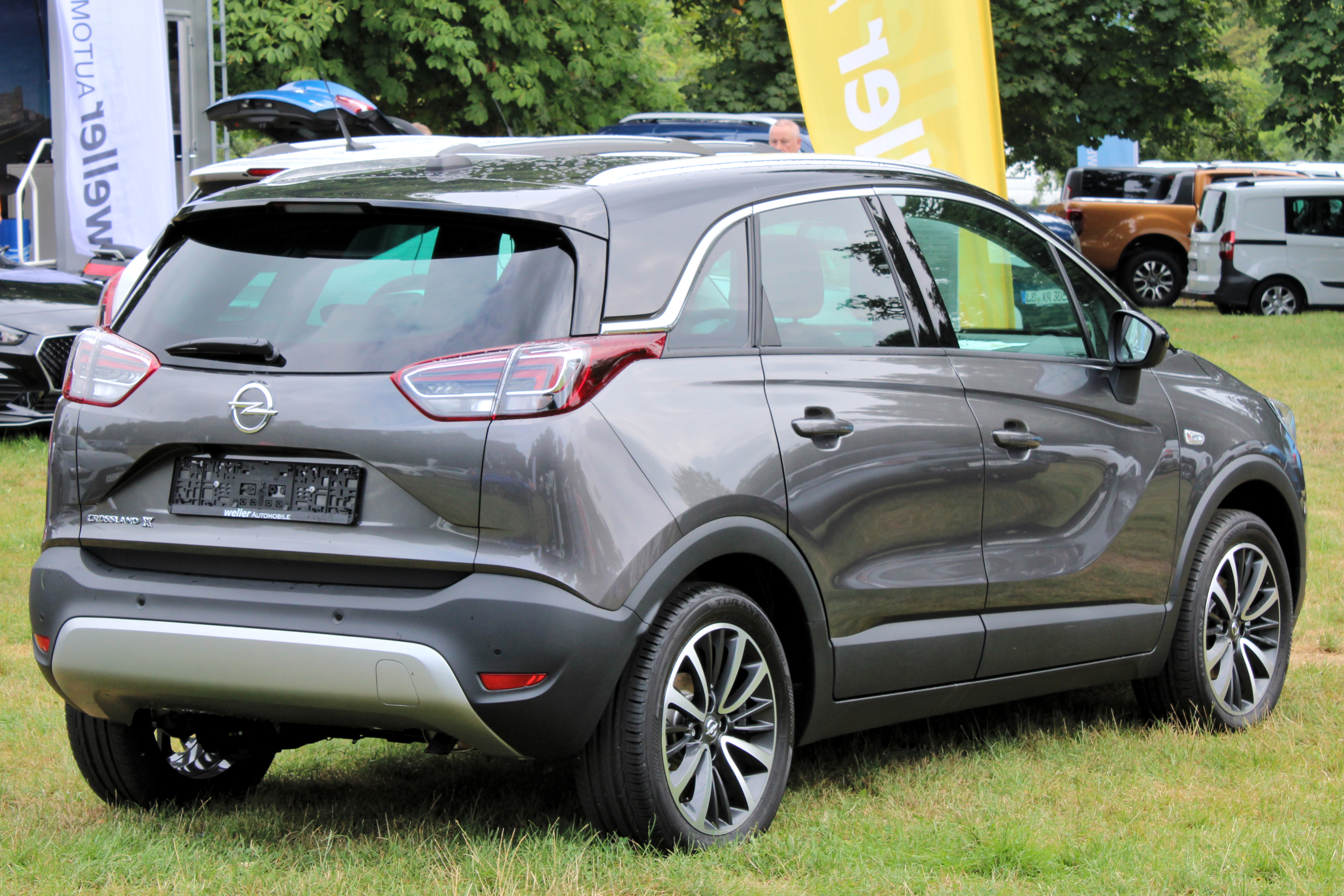 Opel Crossland X at Schloss Monrepos 2019